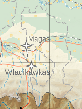 Topographic map of Ingushetia.